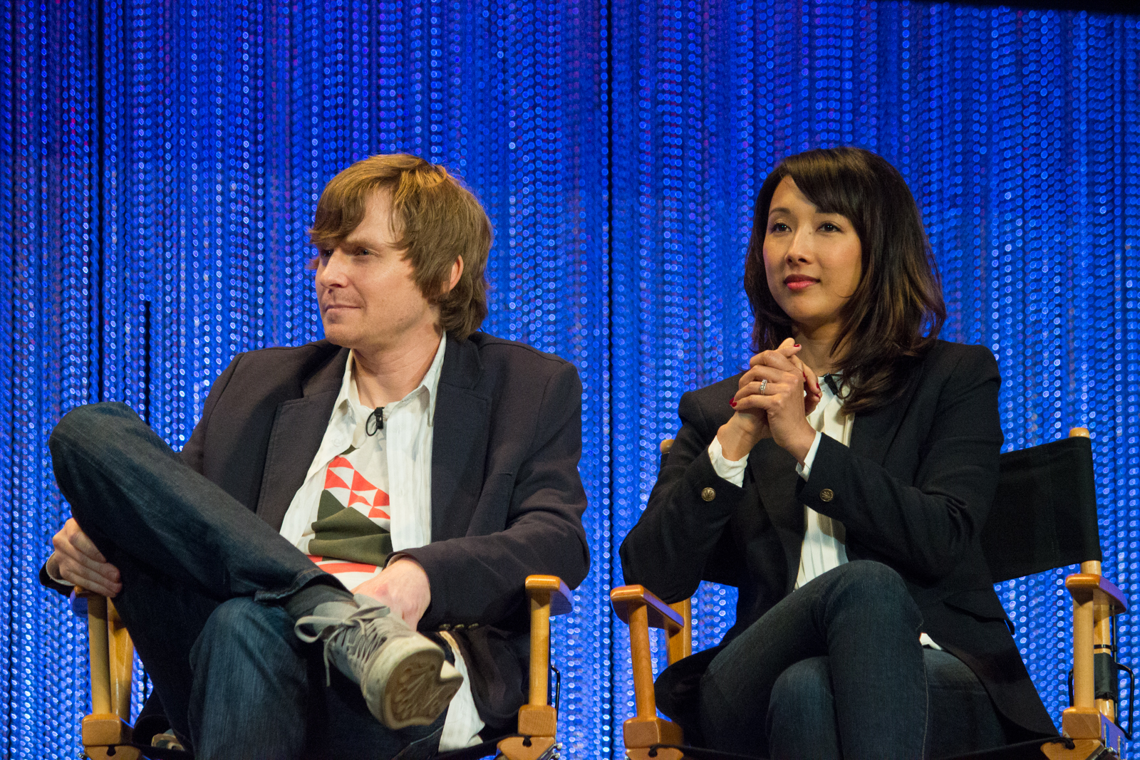 Jed Whedon and Maurissa Tancharoen at PaleyFest 2014